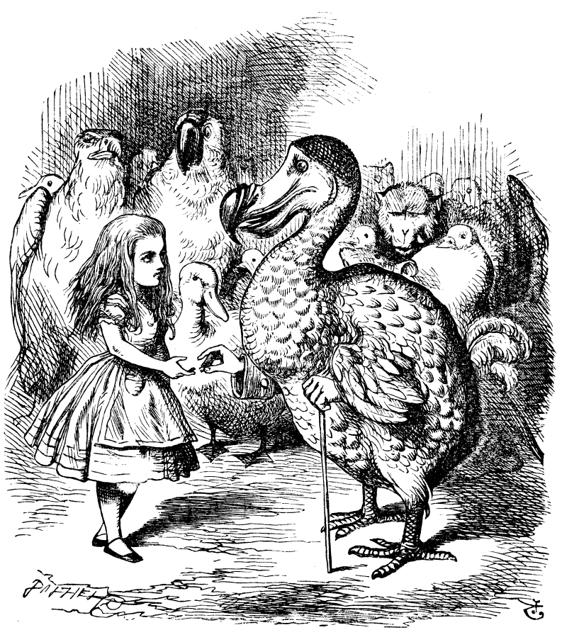 Original illustration of Alice's Adventures in Wonderland, by John Tenniel 1865